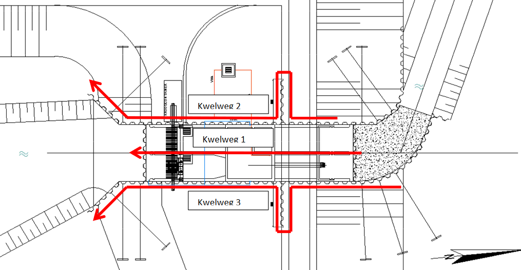 The red lines indicate the potential seepage paths around a pumping station. These paths have to be checked for stability against piping